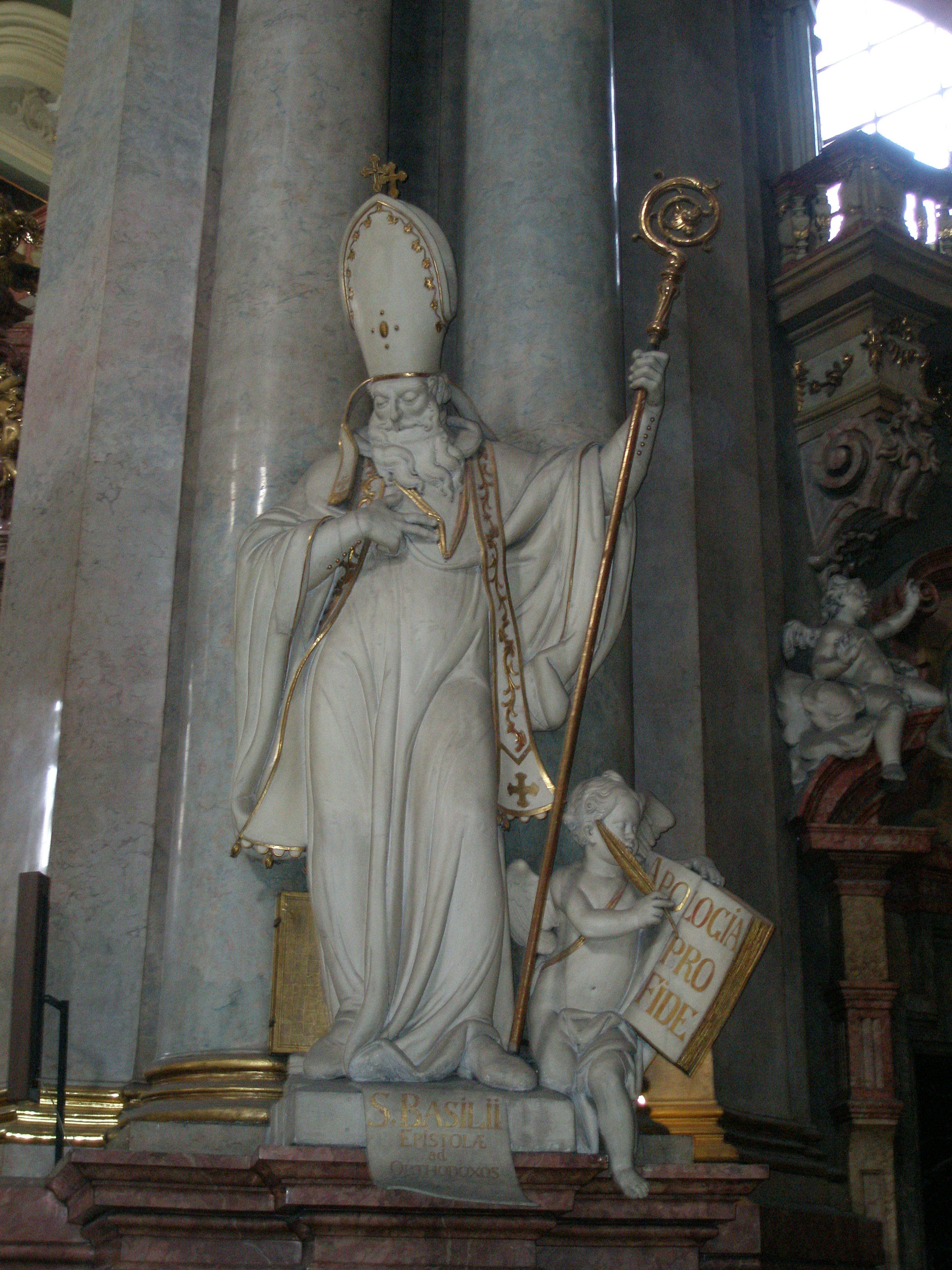 Statue of St. Basil the Great, St. Nicolas Church, Mala Strana, Prague